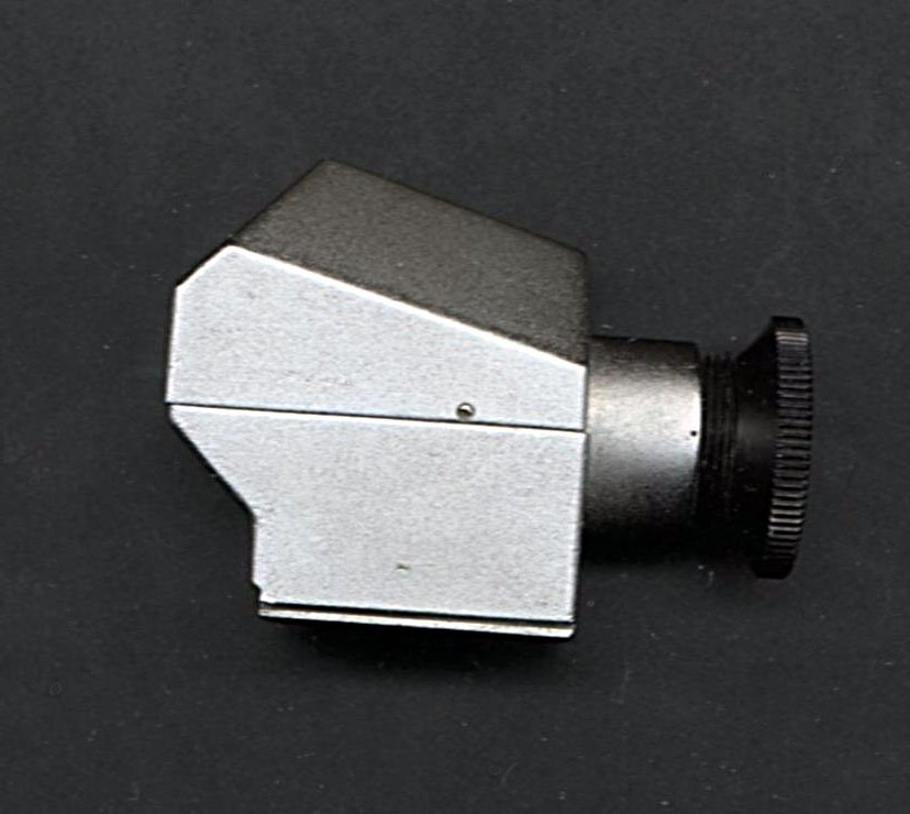 rare chrome Tessina pentaprism.